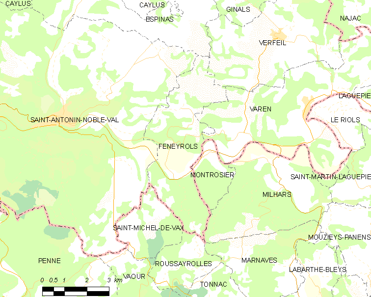 Map of French municipality Féneyrols